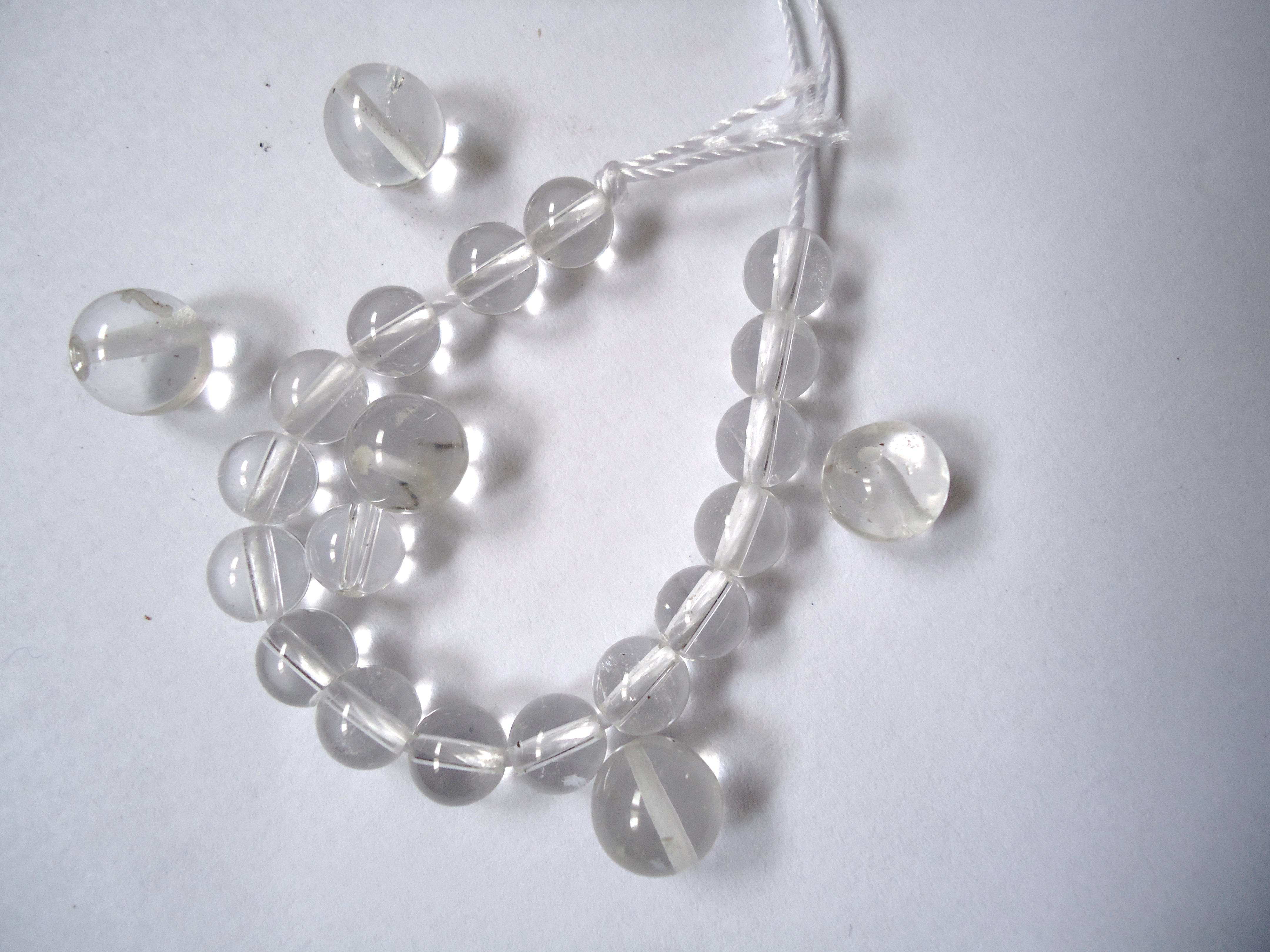 Rock crystal beads (quartz). Photo : Mauro Cateb, Brazilian jeweler.